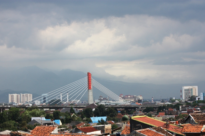 Skyline of Bandung as seen from Cihampelas area with the Pasupati bridge prominently features in the foreground